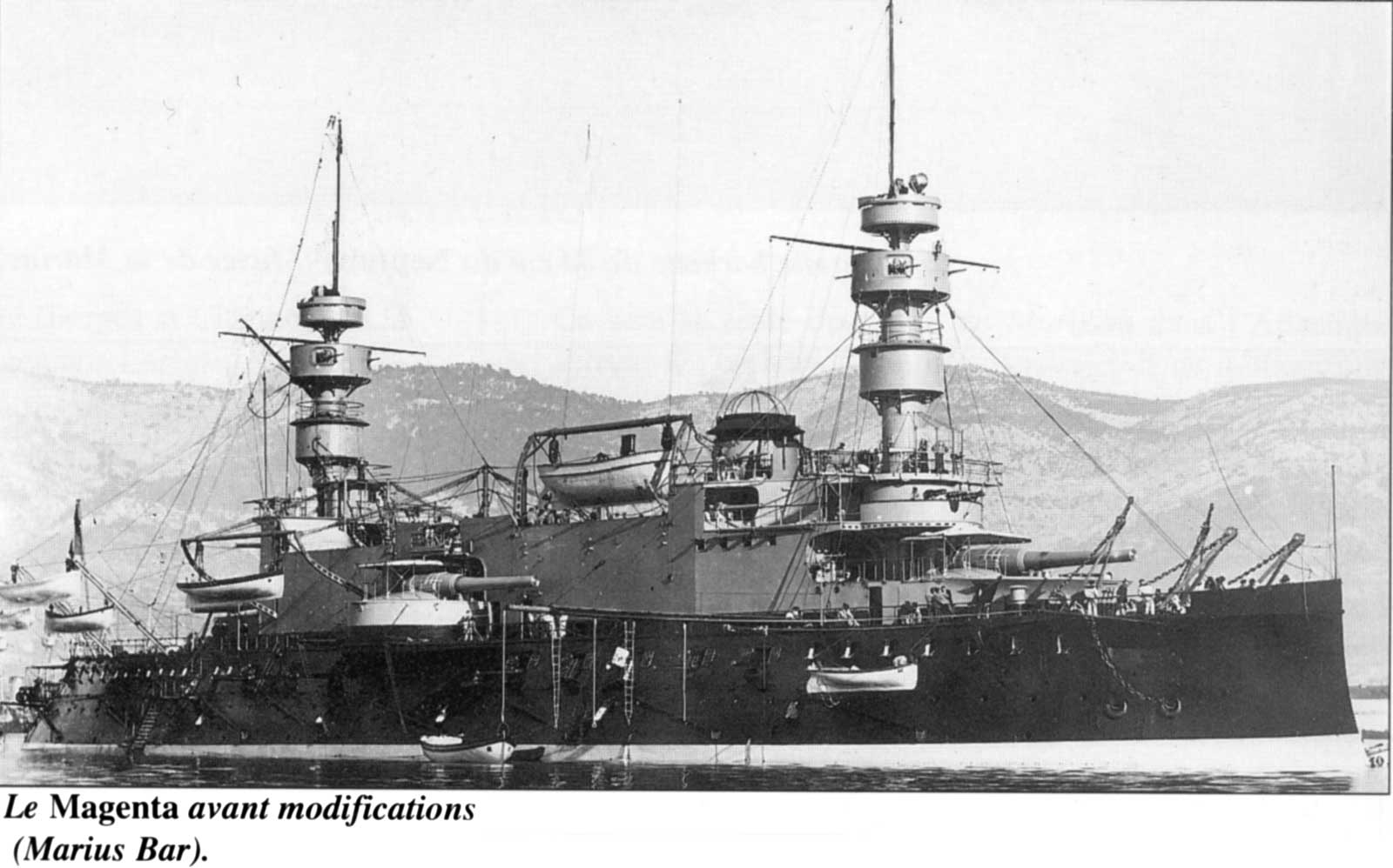 French battleship Magenta